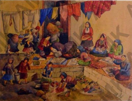 Azerbaijani women gets education in medrese. Azim Azimzade. 1935